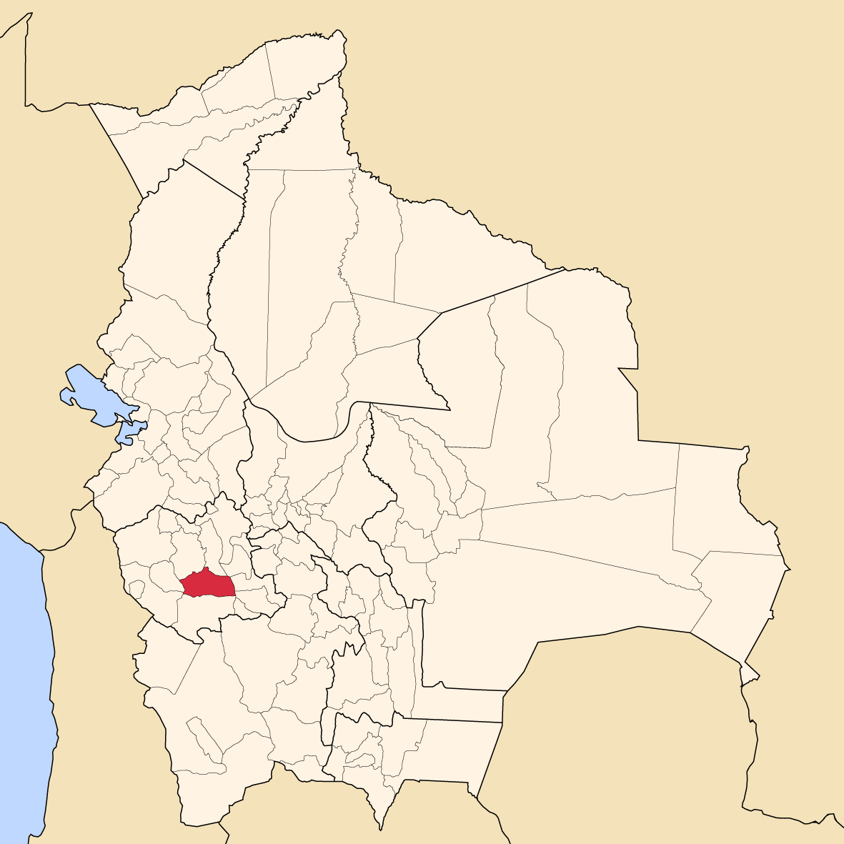 Map of Bolivia showing Sud Carangas province, Oruro